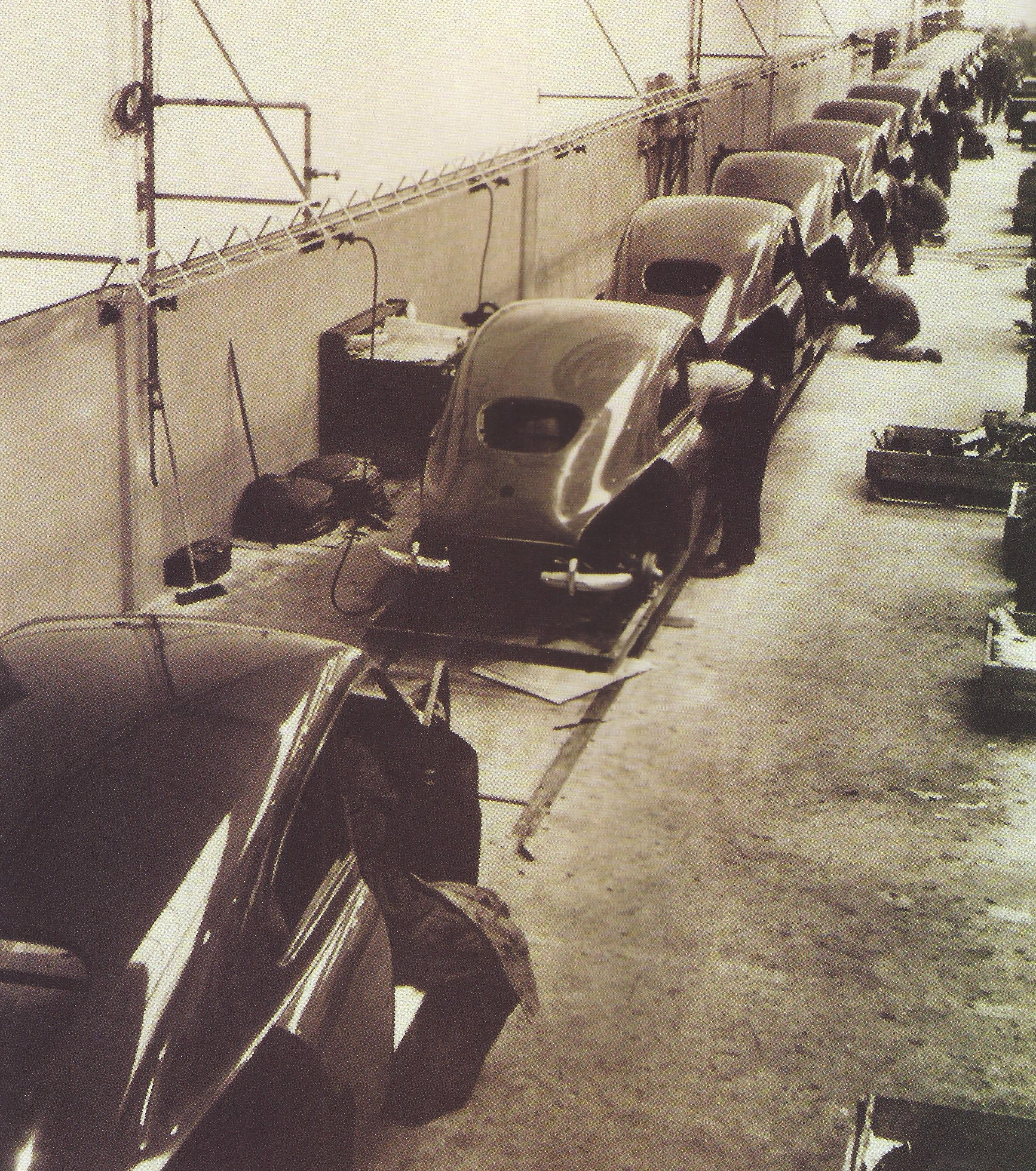 A page from the 1997 SAAB USA brochure showing the assembly of their first models.